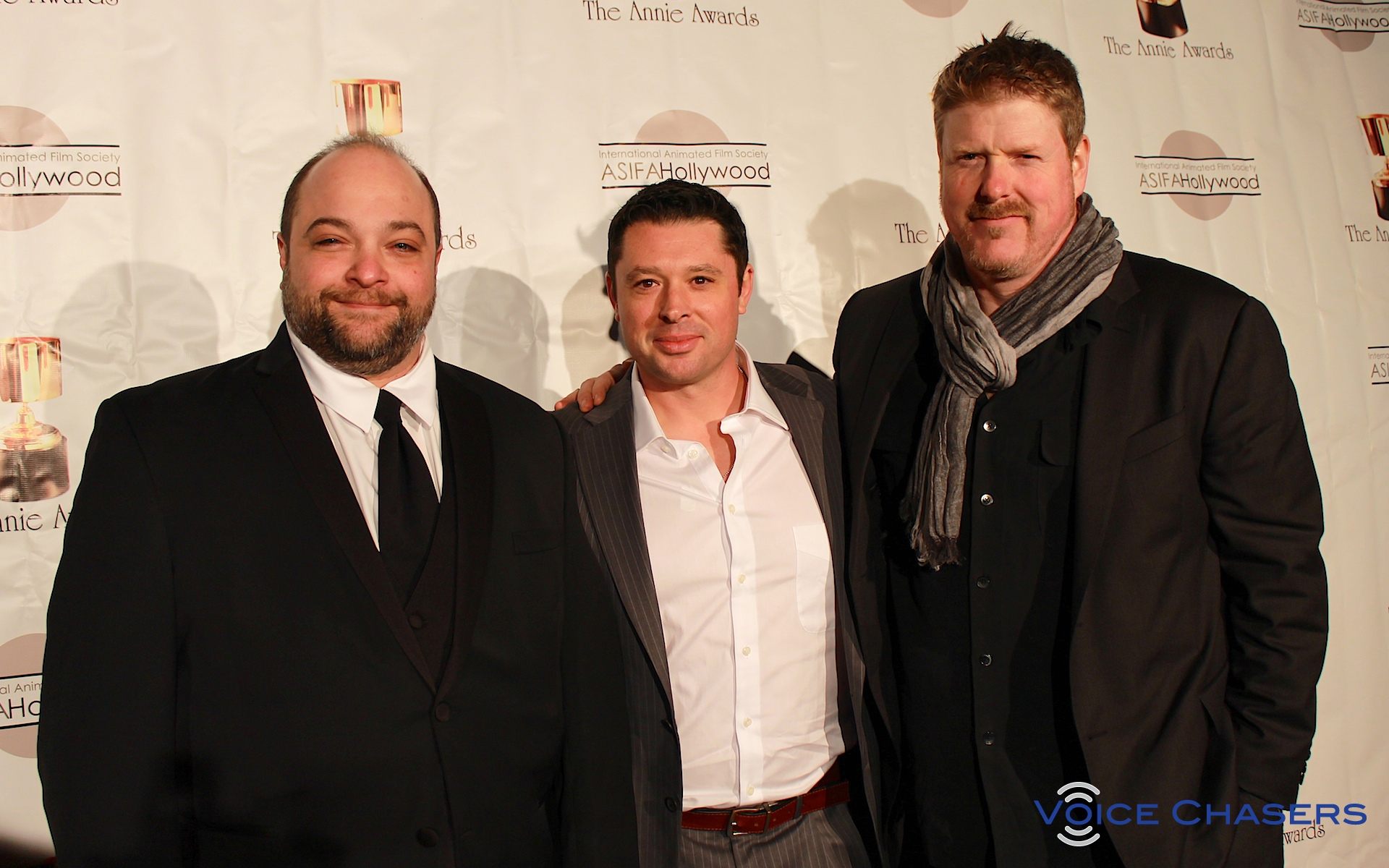 "I Know That Voice" Documentary Team Lawrence Shapiro, Tommy Reid, and at the 41st Annual Annie Awards.